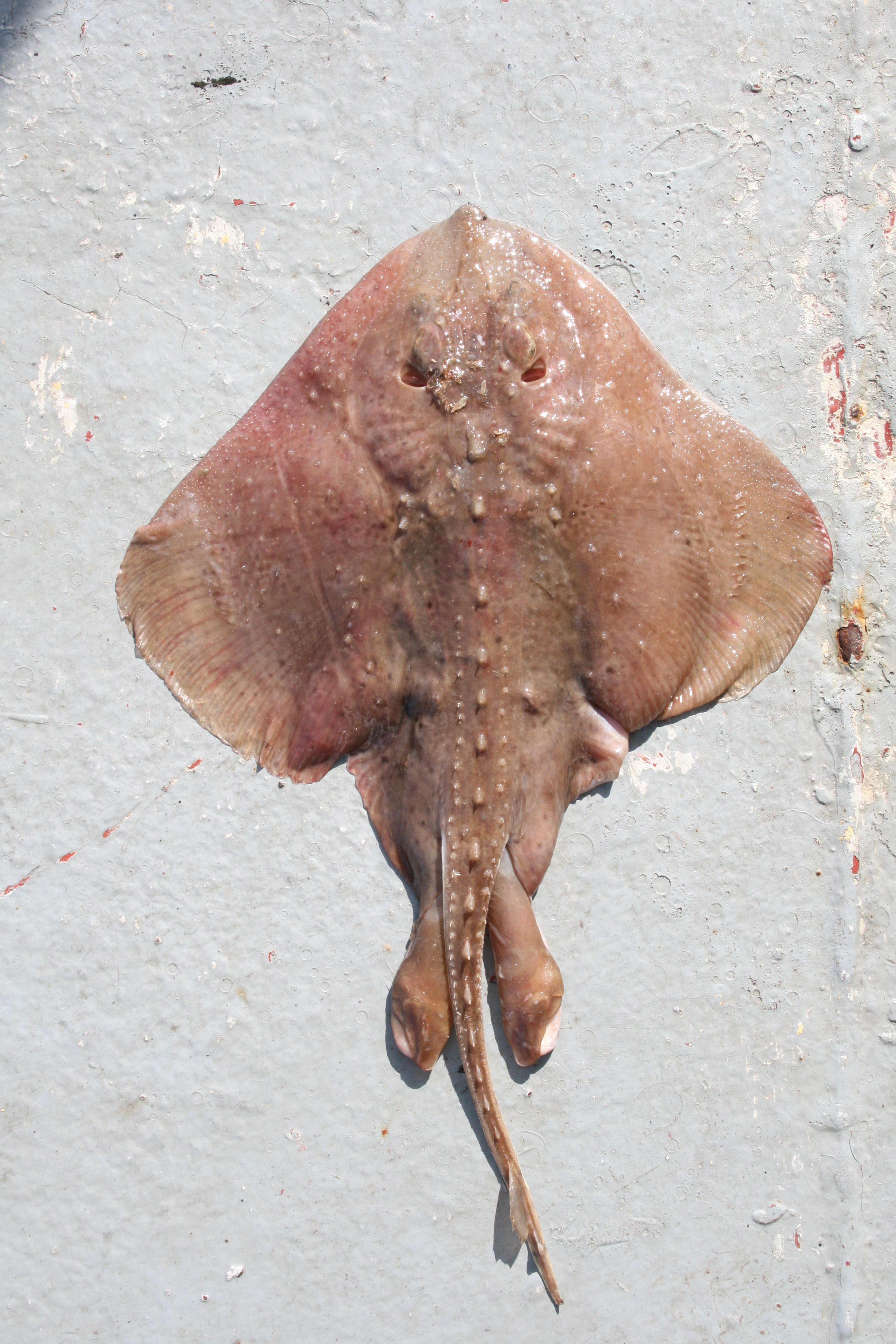 thorny skate (Amblyraja radiata)